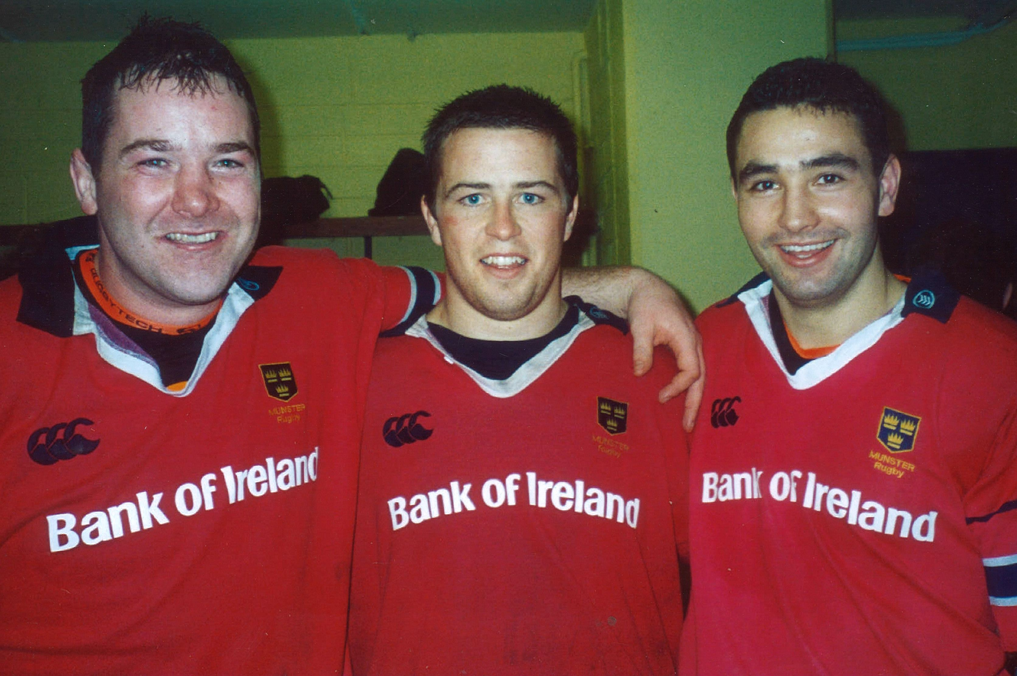 St.Munchin's Legends, Anthony Foley, Marcus Horan and Jeremy Staunton.